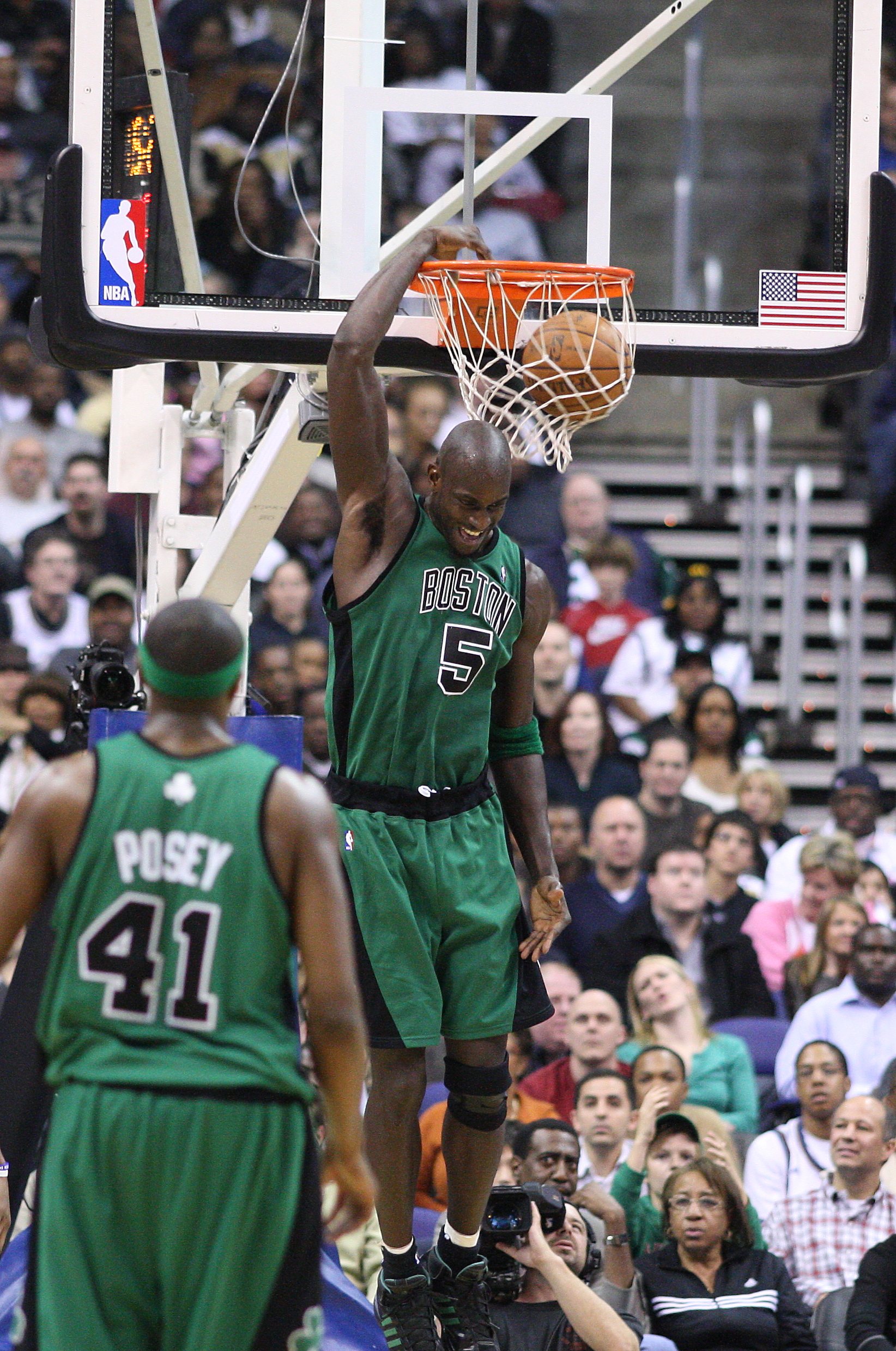 Boston Celtics. Kevin Garnett 2008